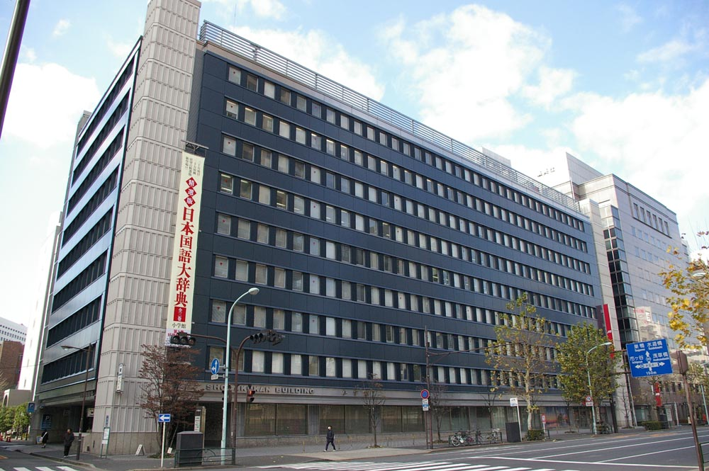 Shogakukan,Japan,Tokyo.Taken by Los688,Dec 2005.